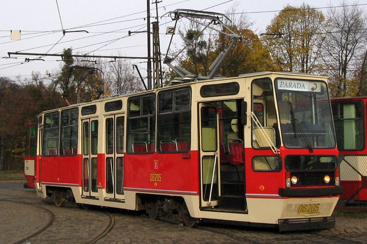 A Konstal 105N tram in Gdańsk.